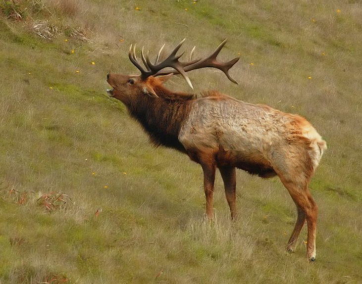 Tule elk stag rutting call in Point Reyes, California, USA. Cervus canadensis ssp. nannodes.